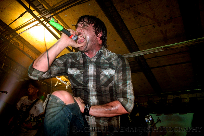 Cory Brandan on Radio Rebellion Tour photo by: Rachel Rodemann